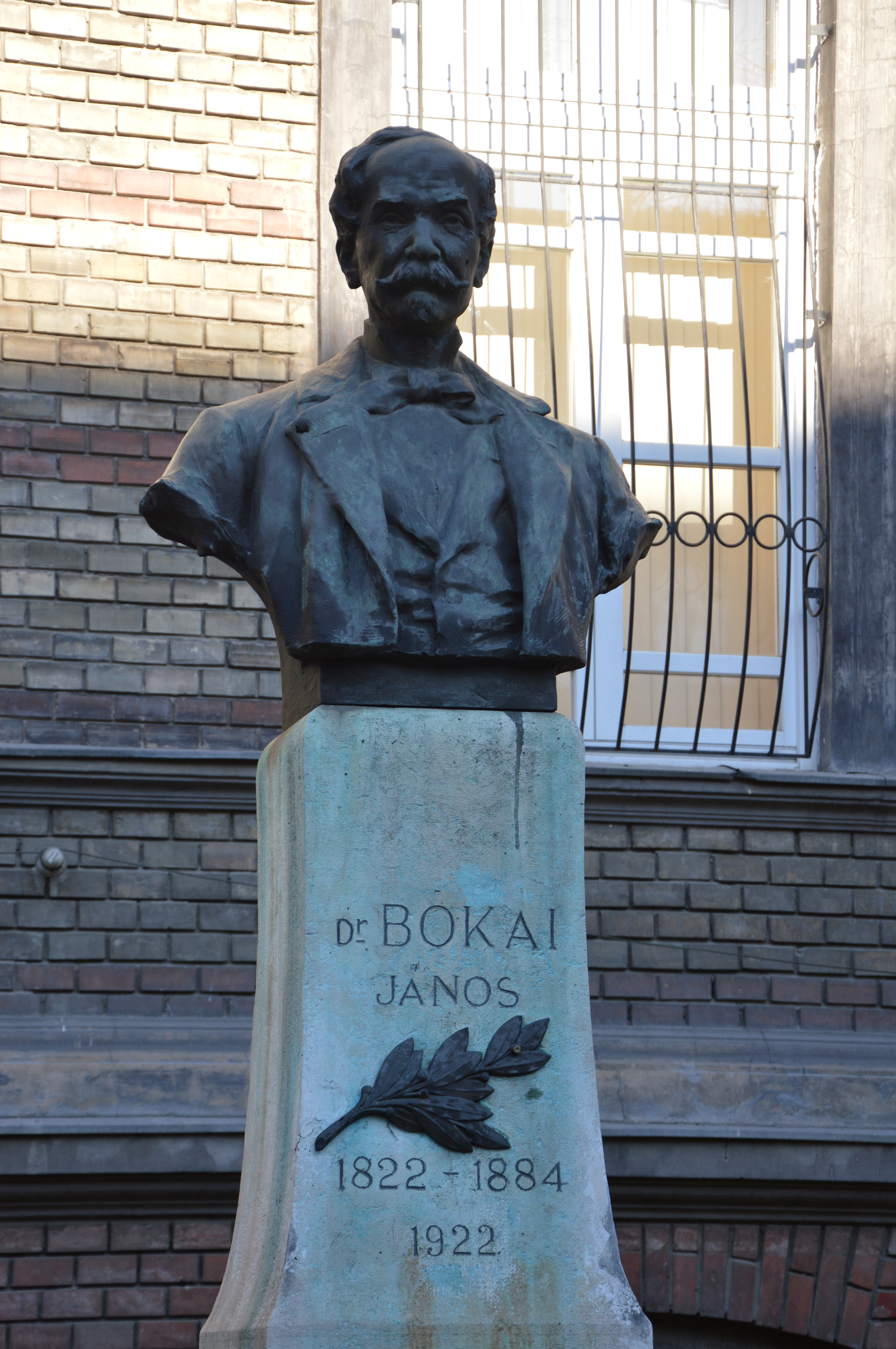 Statue of Dr. János Bókai (1902) by Béla Radnai at Üllői út 74, Budapest, Hungary.